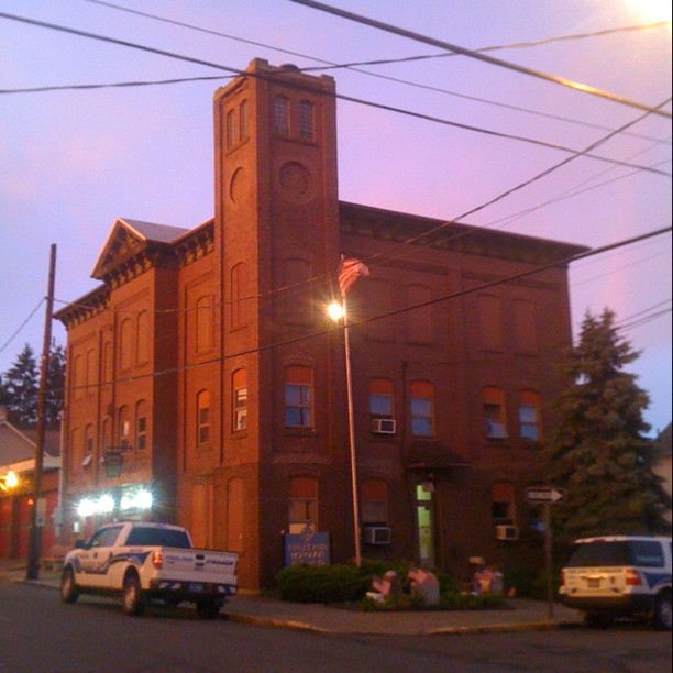 The Freeland Borough Building — in Freeland, Pennsylvania. Taken in September, 2012.